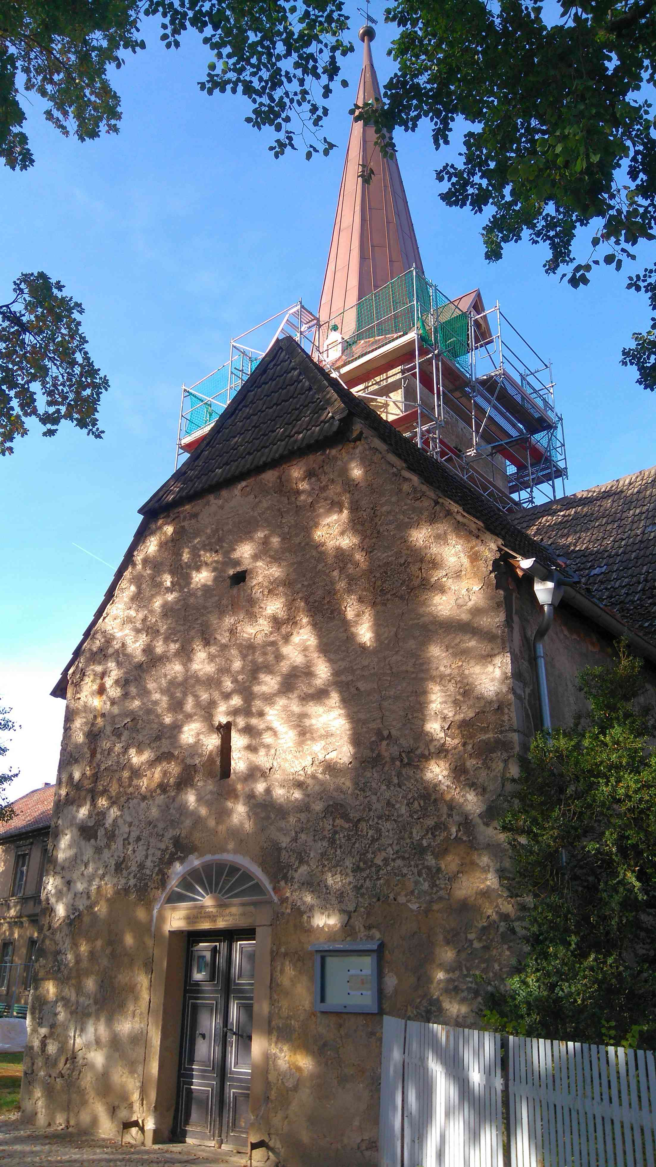 Church in Vogelsdorf, Saxony-Anhalt, Germany. View to the porch of 1842, in the background the renovated church tower.